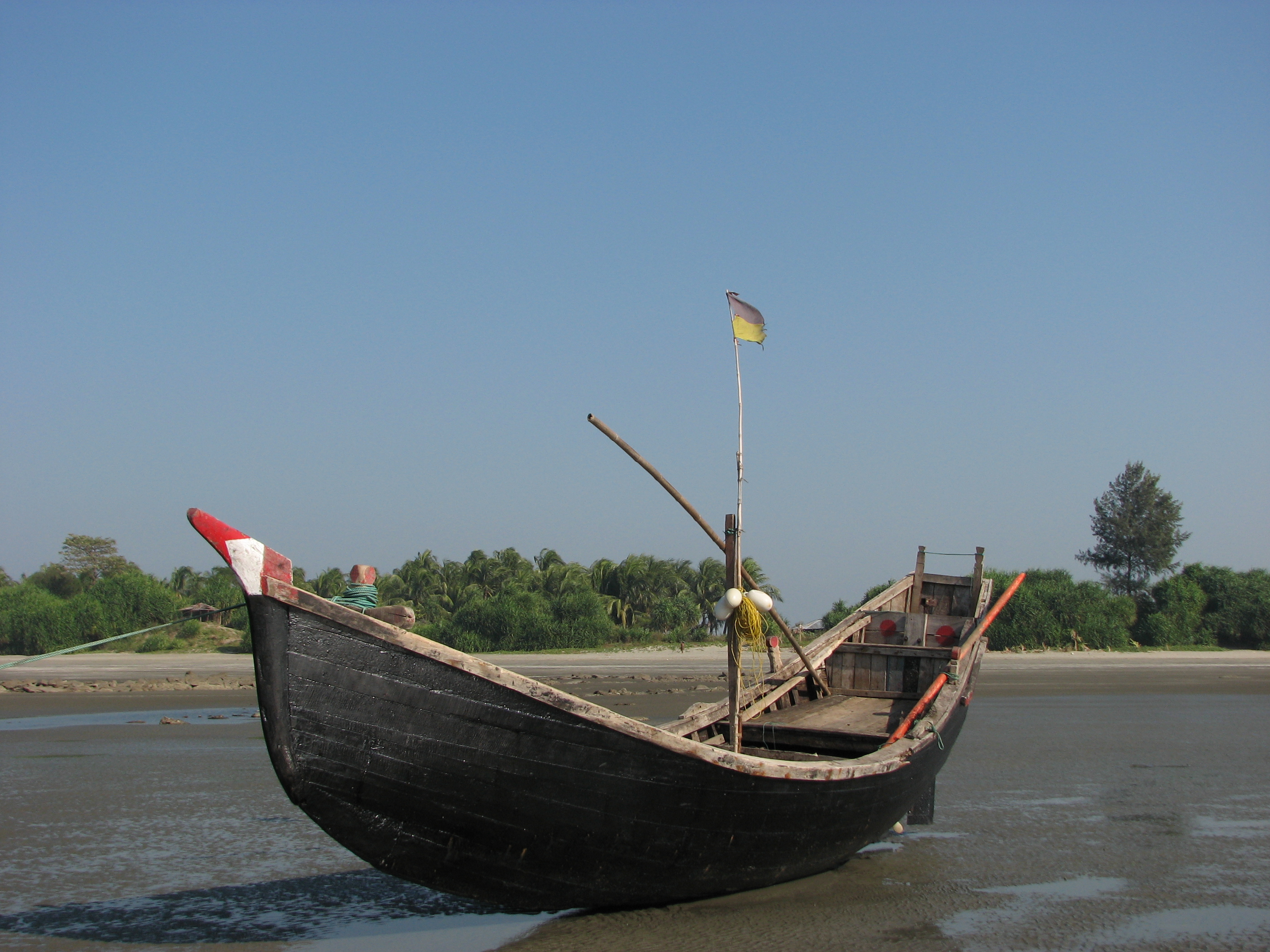 Bangladeshi fishing boat, a trawler, on the beach of Narikel Zinzira (St.Martin Island).